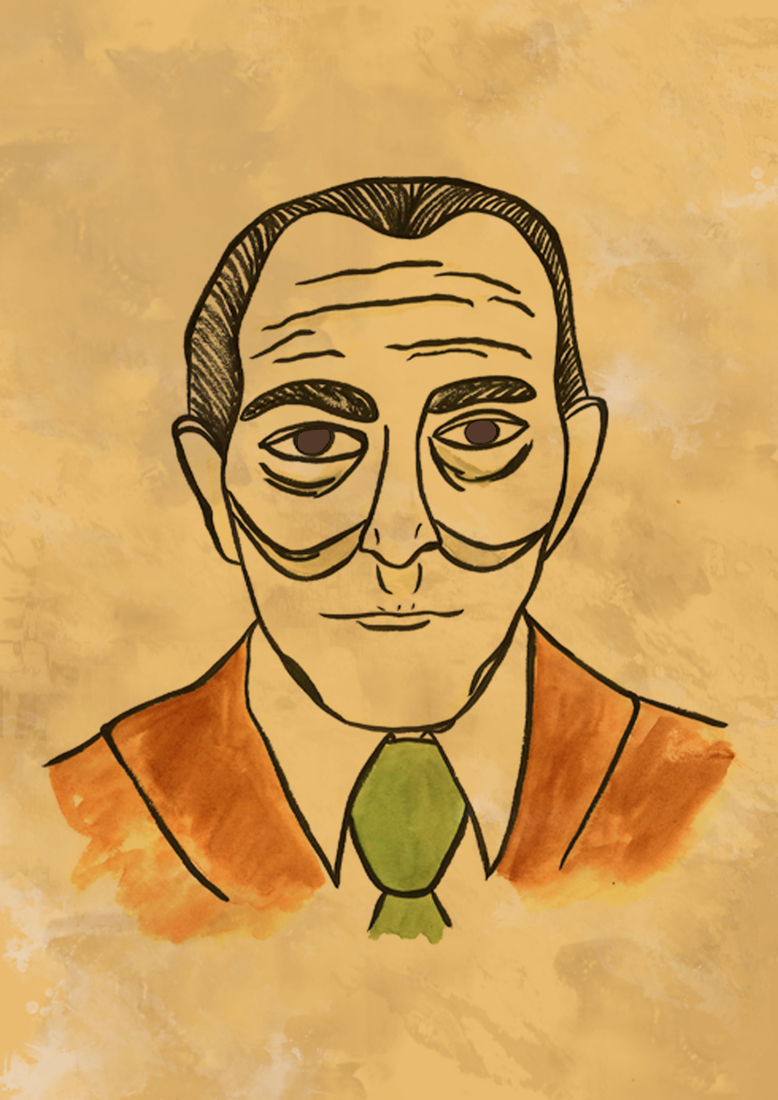 Portrait of Josep Roig Magrinyà (1918-2004). President of the Agricultural Cooperative of Valls and Vice-President of the Union of Cooperatives of Tarragona. Minister of Agriculture, Livestock and Fisheries of the Provisional Government of the Generalitat of Catalonia (1977-1980) ERC (Republican Left of Catalonia). Deputy ERC Tarragona in 1980. Approximate age of the picture: 78 years. Technique: Japanese ink and watercolors. This image was provided to Wikimedia Commons as a contribution from an Art&Design School thanks of a collaboration between Llotja and Amical Wikimedia.